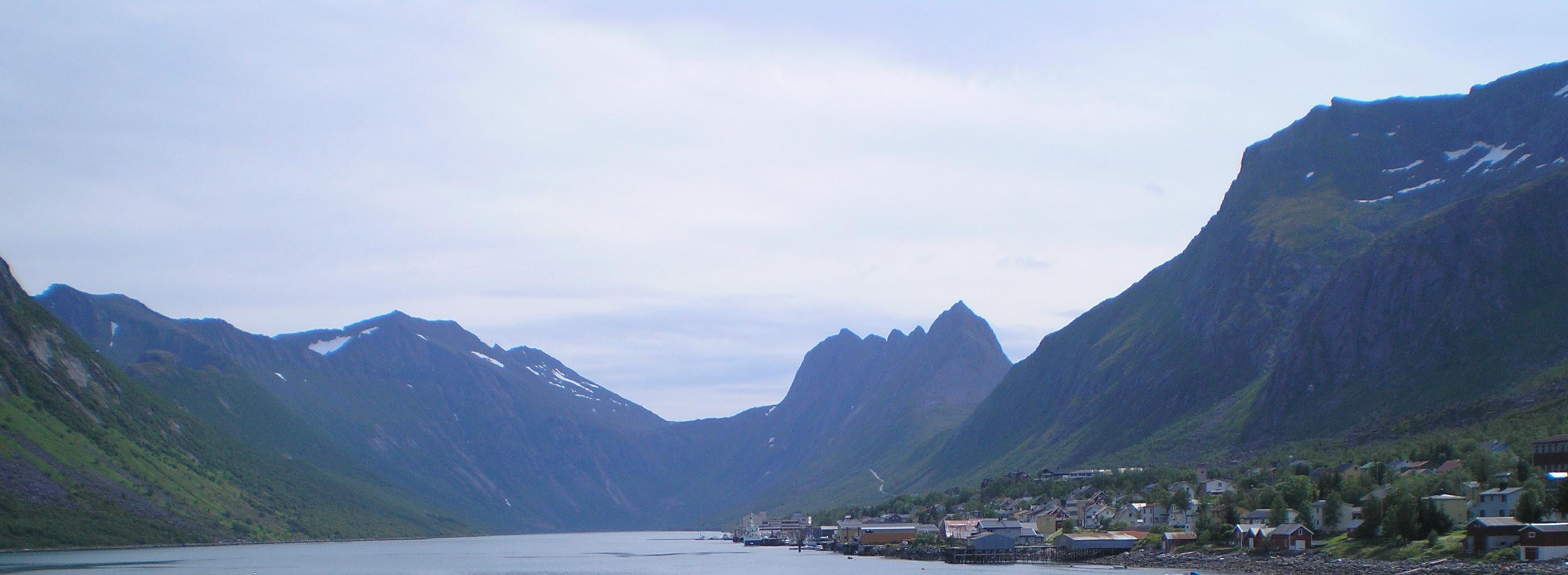 Gryllefjorden and Gryllefjord, Senja island, Norway.